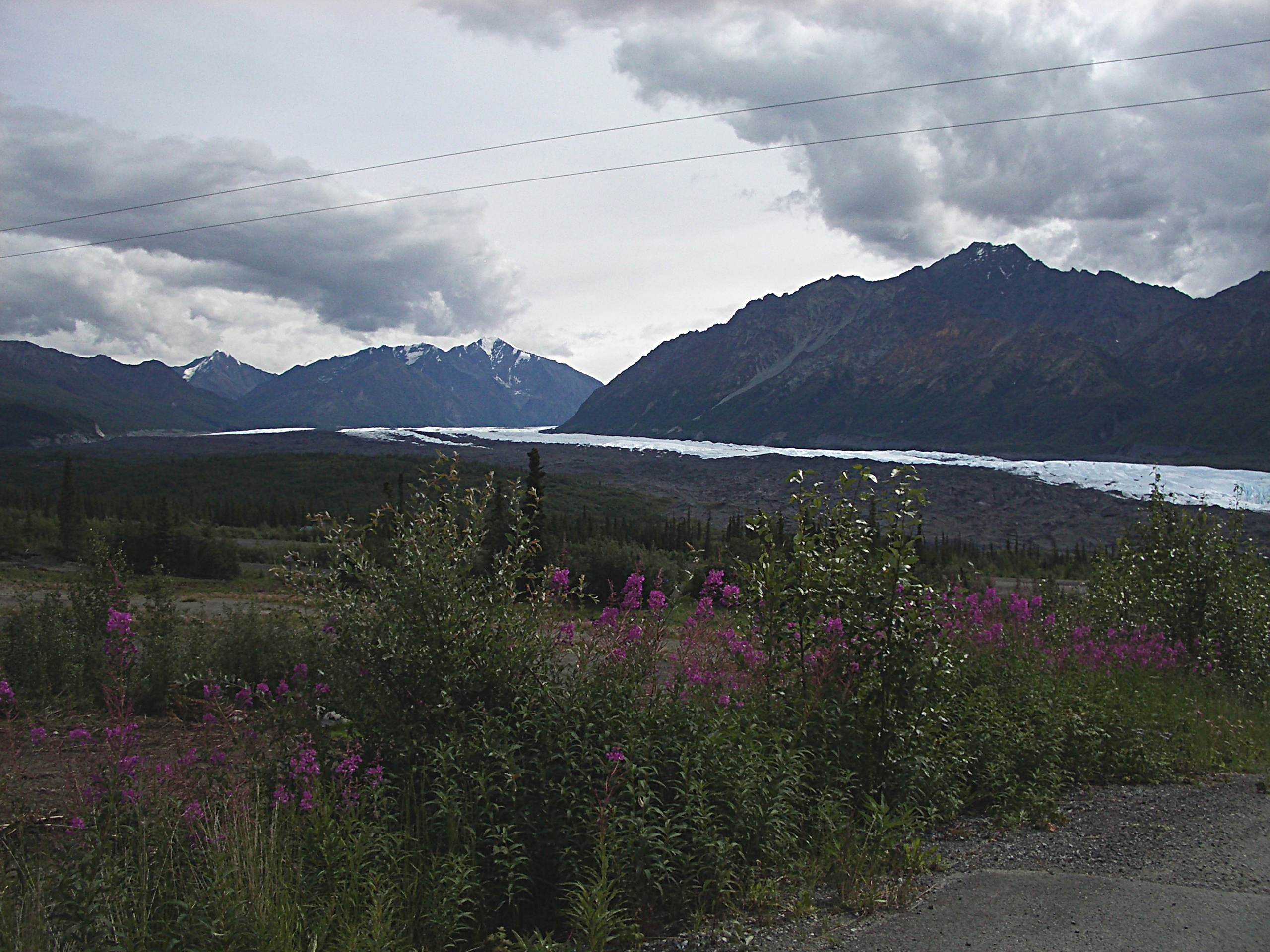 Matanushka Glacier depuis la Glenn Highway (Alaska)